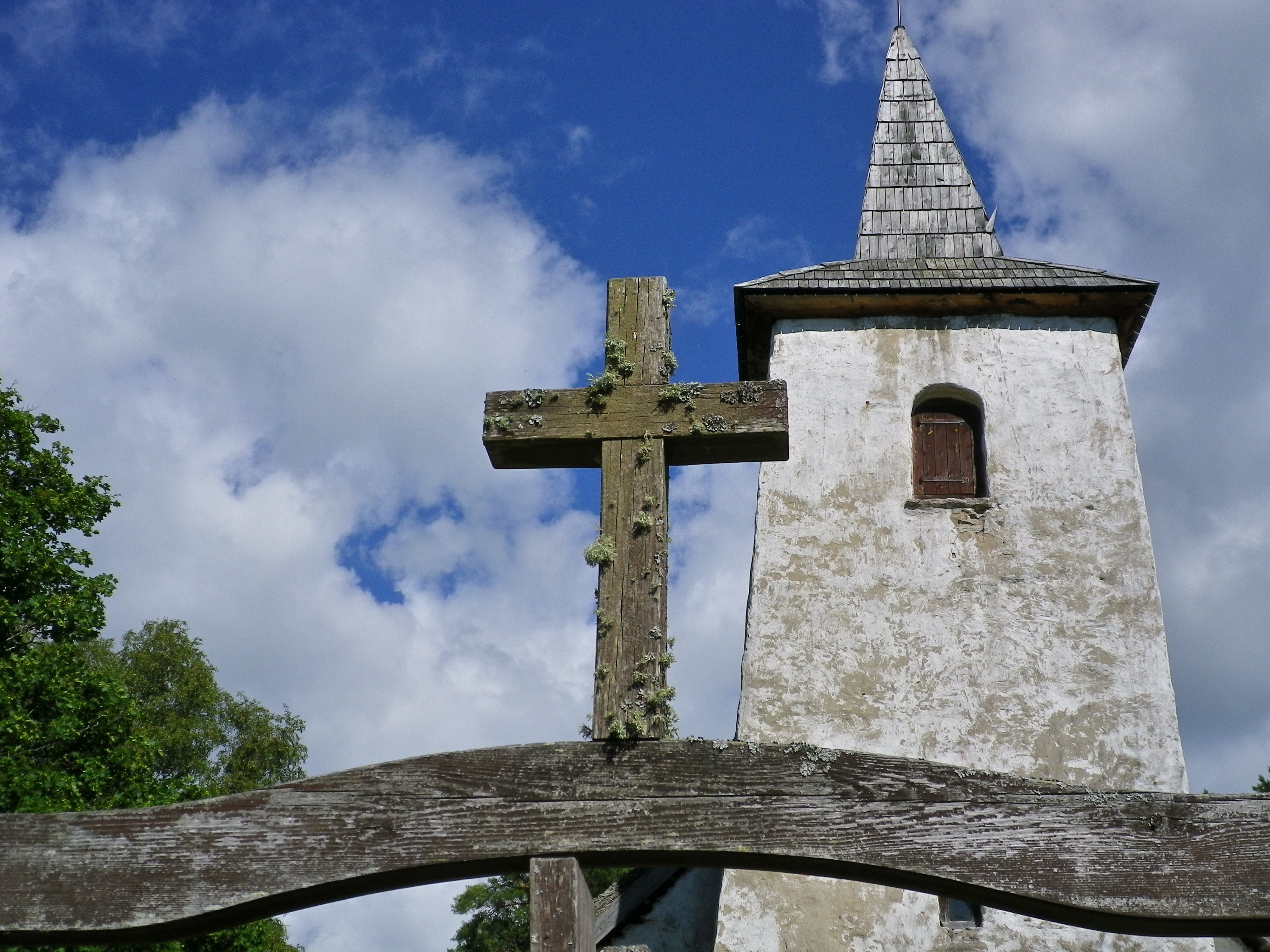 Kassari Chapel, Hiiumaa